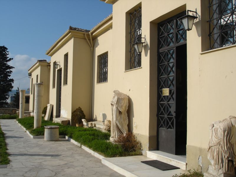 Eleusis Archaeological Museum. The museum is located inside the archaeological site of Eleusis. Built in 1890